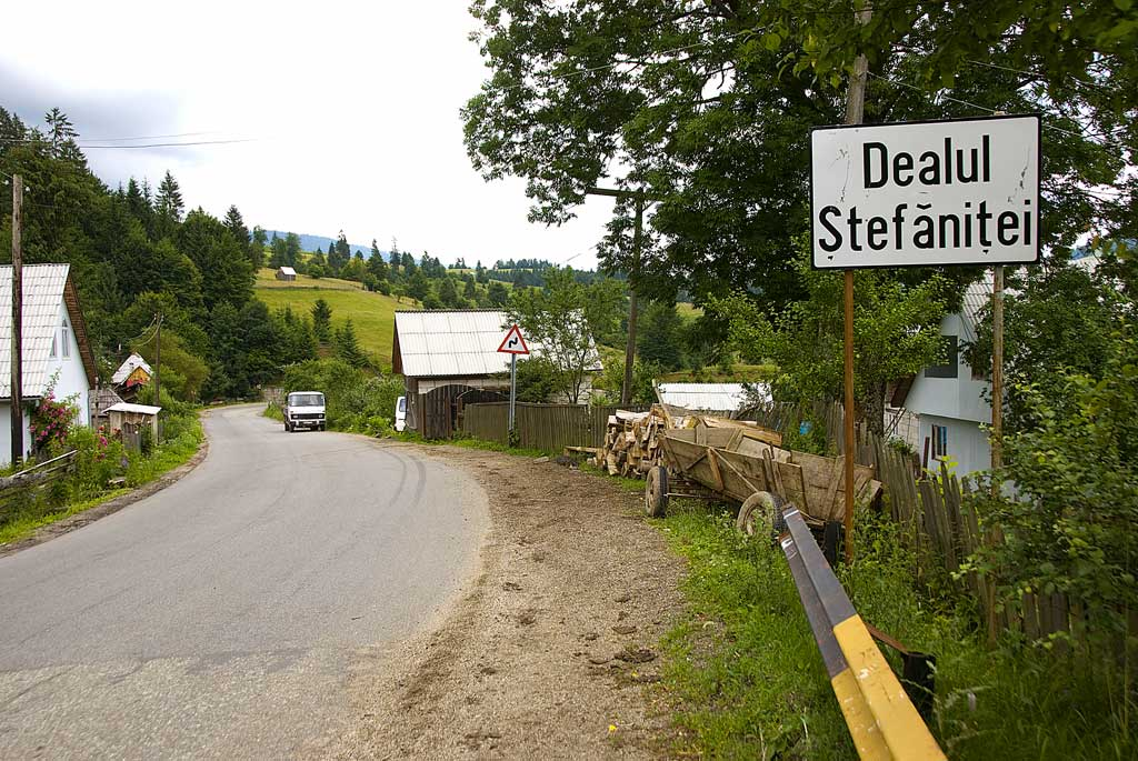 Dealul Ştefăniţei - Entrance from North